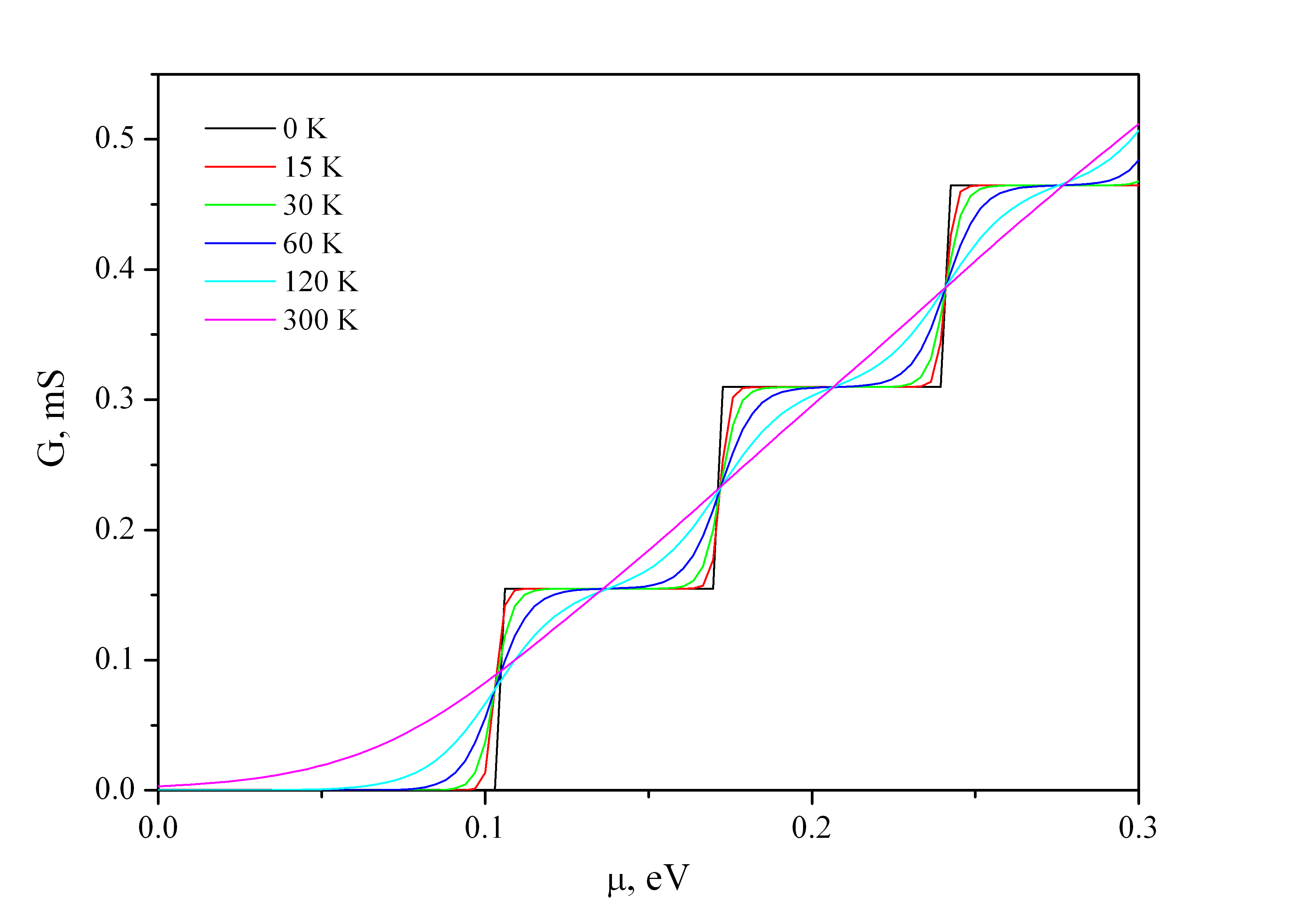 Conductance